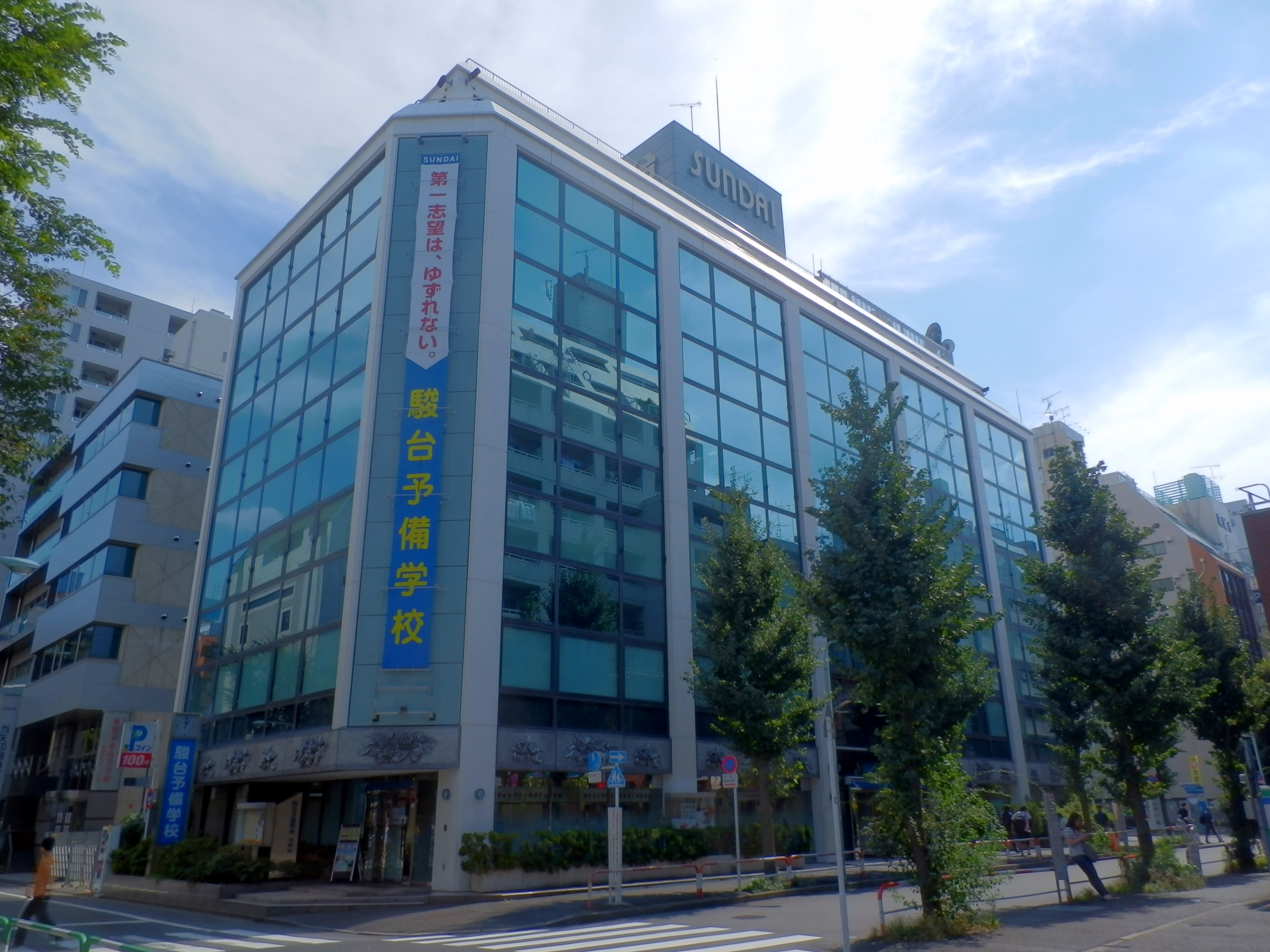 Sundai Preparatory School Ikebukuro Bldg (Ikebukuro, Tokyo, Japan)